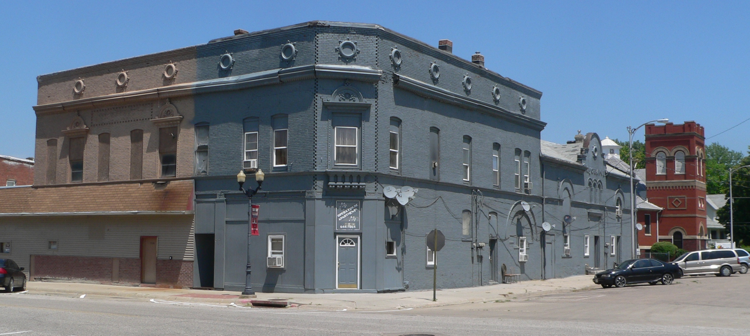 Northeast corner of 4th and Main Streets in Madison, Nebraska. Most of the photo is taken up by the Heins Opera House, now Opera House Apartments; the square red brick tower in the right background belongs to the First United Presbyterian Church, now the Historic Presbyterian Community Center for Arts & Education.